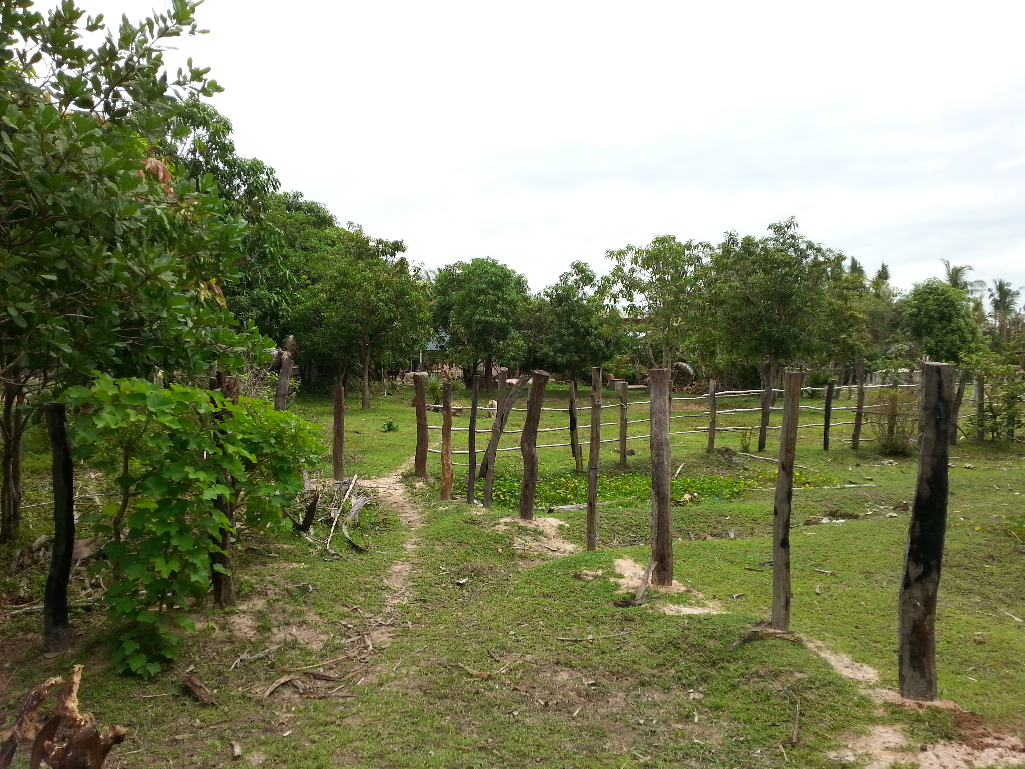 Farm in Teuk Phos District, Kampong Chhnang Province.